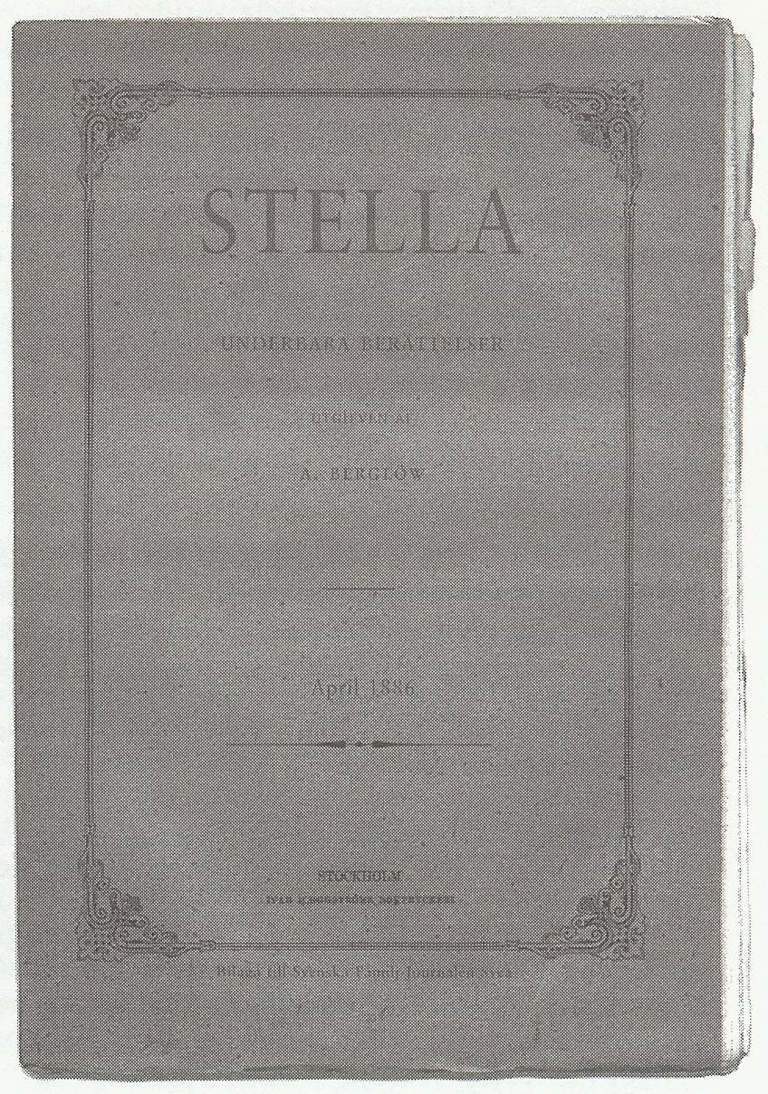 Supposed cover of the Swedish science fiction magazine Stella, April 1886.